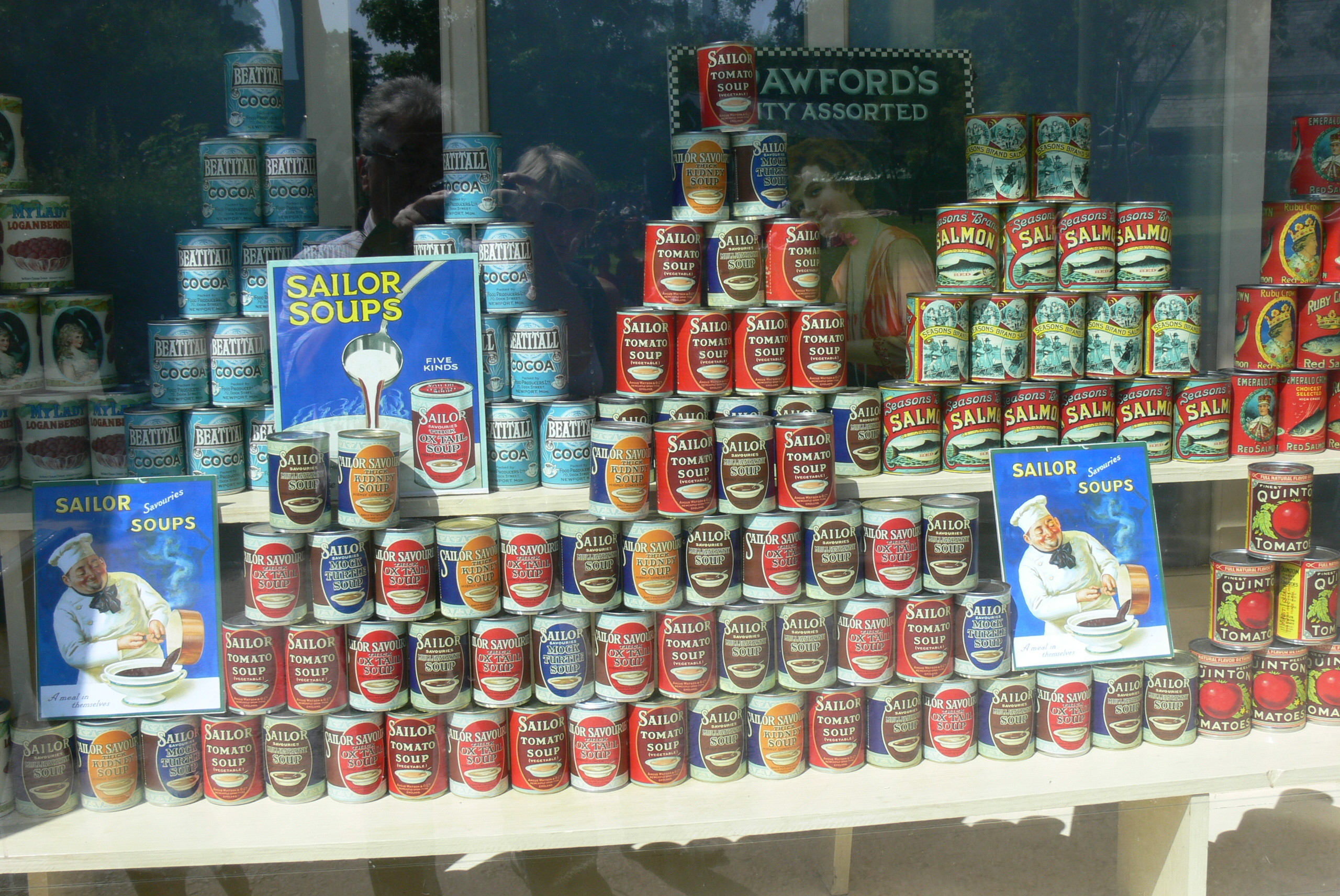 St.Fagans National History Museum ( Cardiff ). Gwalia stores ( 1880 ) - Shop window with canned soup.